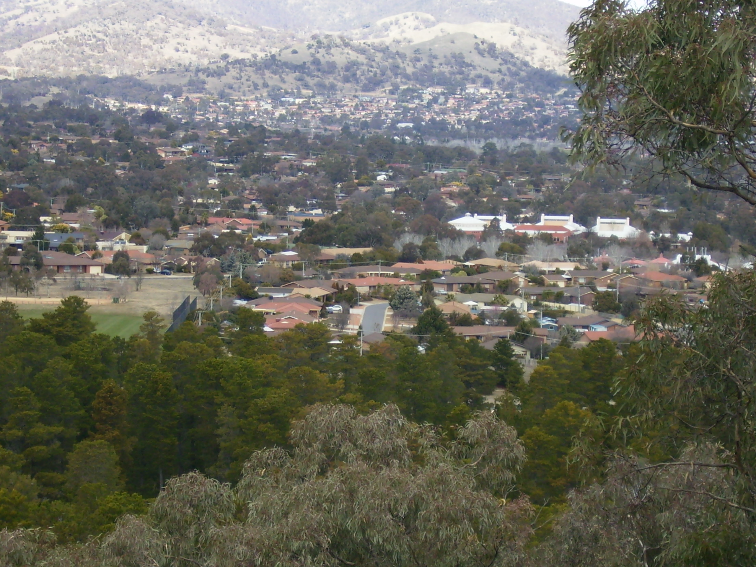 View of Chisholm, Australian Capital Territory from Macarthur Hill showing the Chisholm District Playing Fields and Caroline Chisholm High School, with Fadden Pines in the foreground. This image was created on 3 July 2006 by W. A. Burdett